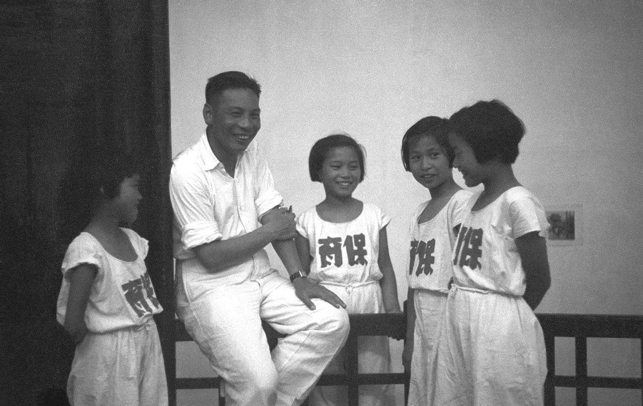 Chiang Ching-kuo in Gannan during the early 1940s. Chiang Ching-kuo was appointed as commissioner of Gannan Prefecture (贛南) between 1939 and 1945.